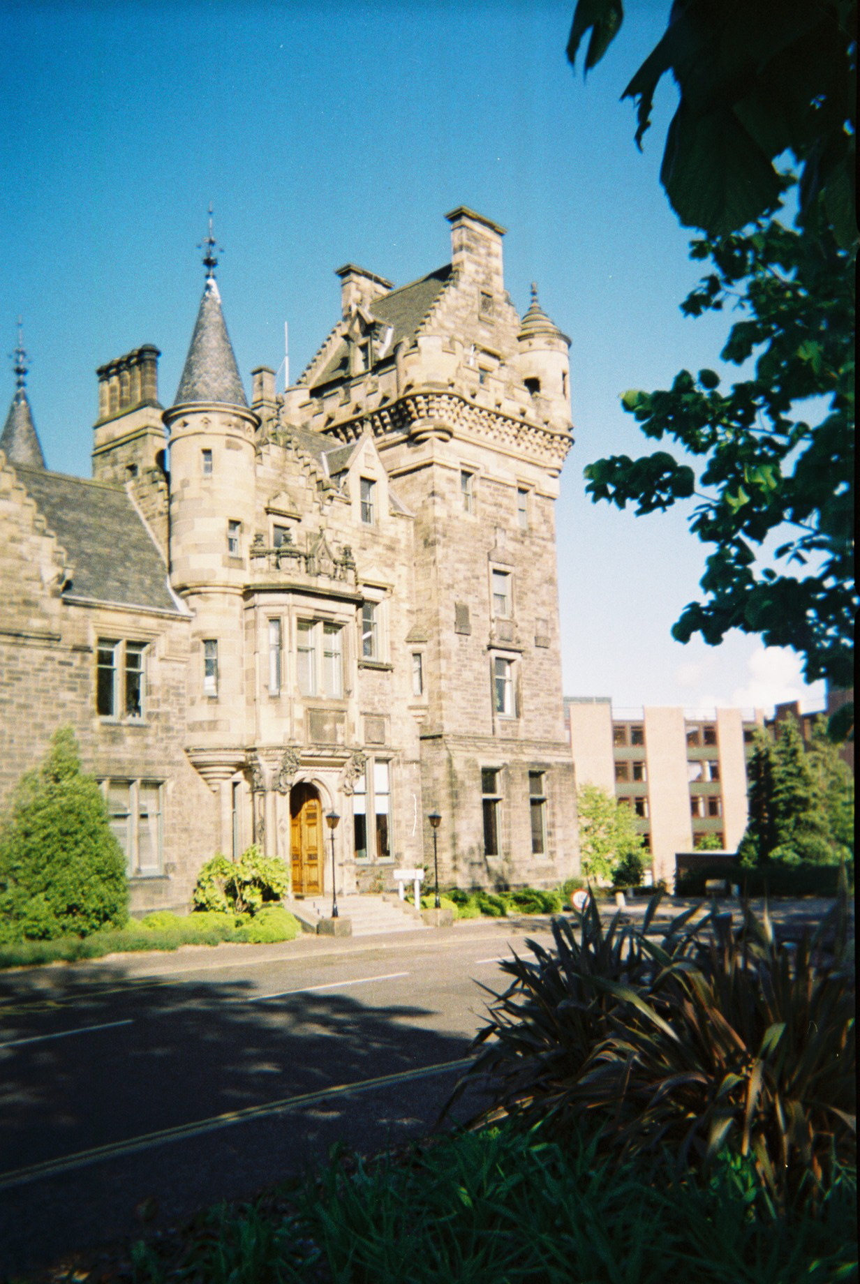 Photograph of St Leonard's Hall, Pollock Halls of Residence, Edinburgh, UK. Photographed on 28 May 2006 in the evening (local time).